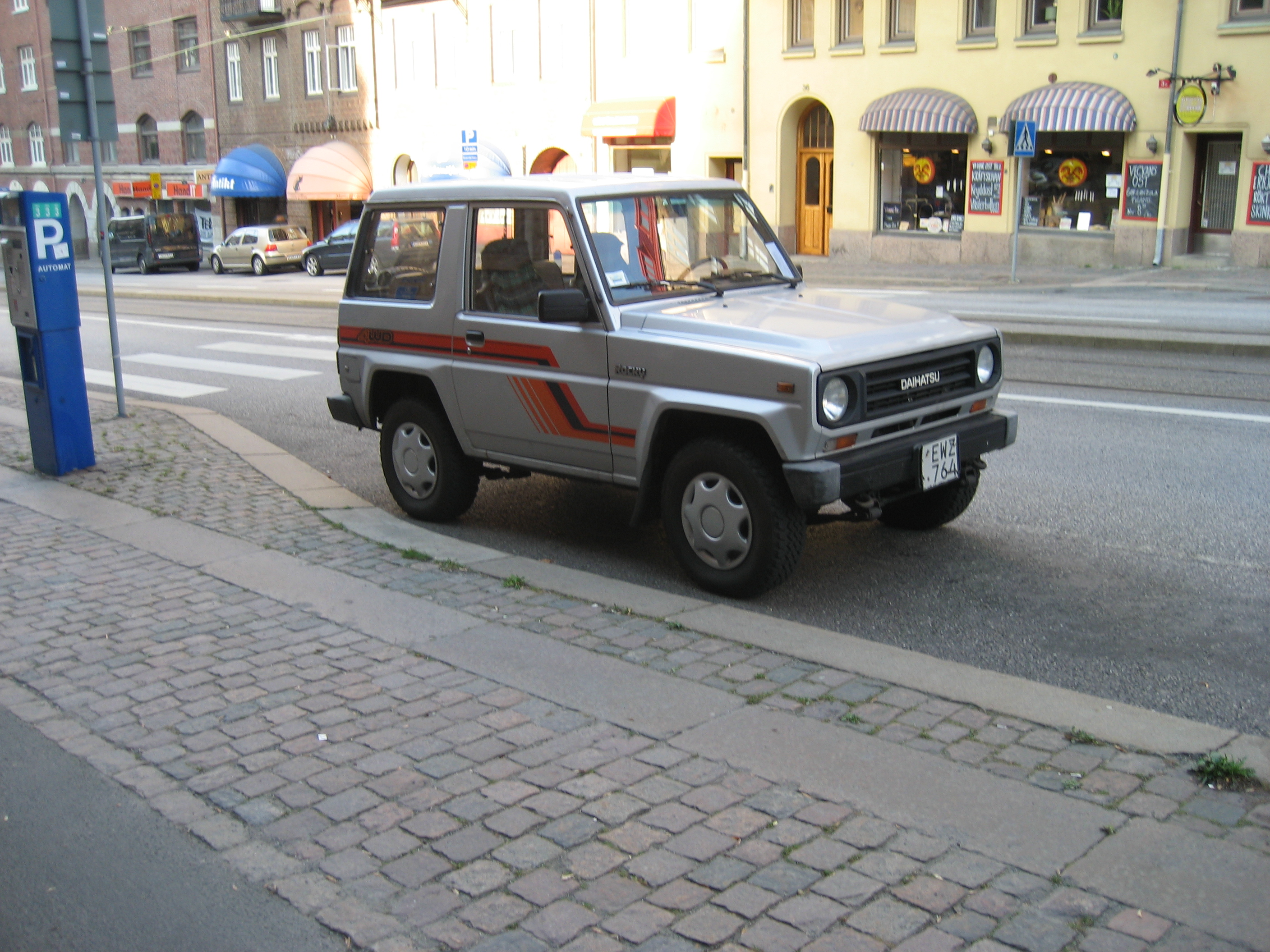 A 1985 Daihatsu Rocky 2.0 4WD (88hp) in Gothenburg, Sweden